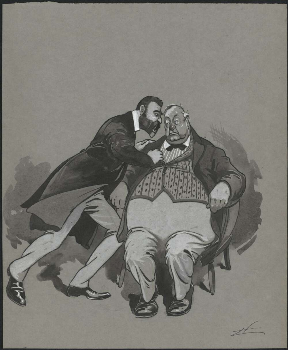 Description [190-] 1 drawing : pen, ink, wash ; 36.3 x 30 cm. Notes Title from inscribed sheet mounted on reverse; monogram l.r. R8856. Subjects Deakin, Alfred, 1856-1919 -- Caricatures and cartoons. | Land reform -- Australia -- Caricatures and cartoons. | Australia -- Politics and government -- 1901-1914. | Picture -- Cartoon.